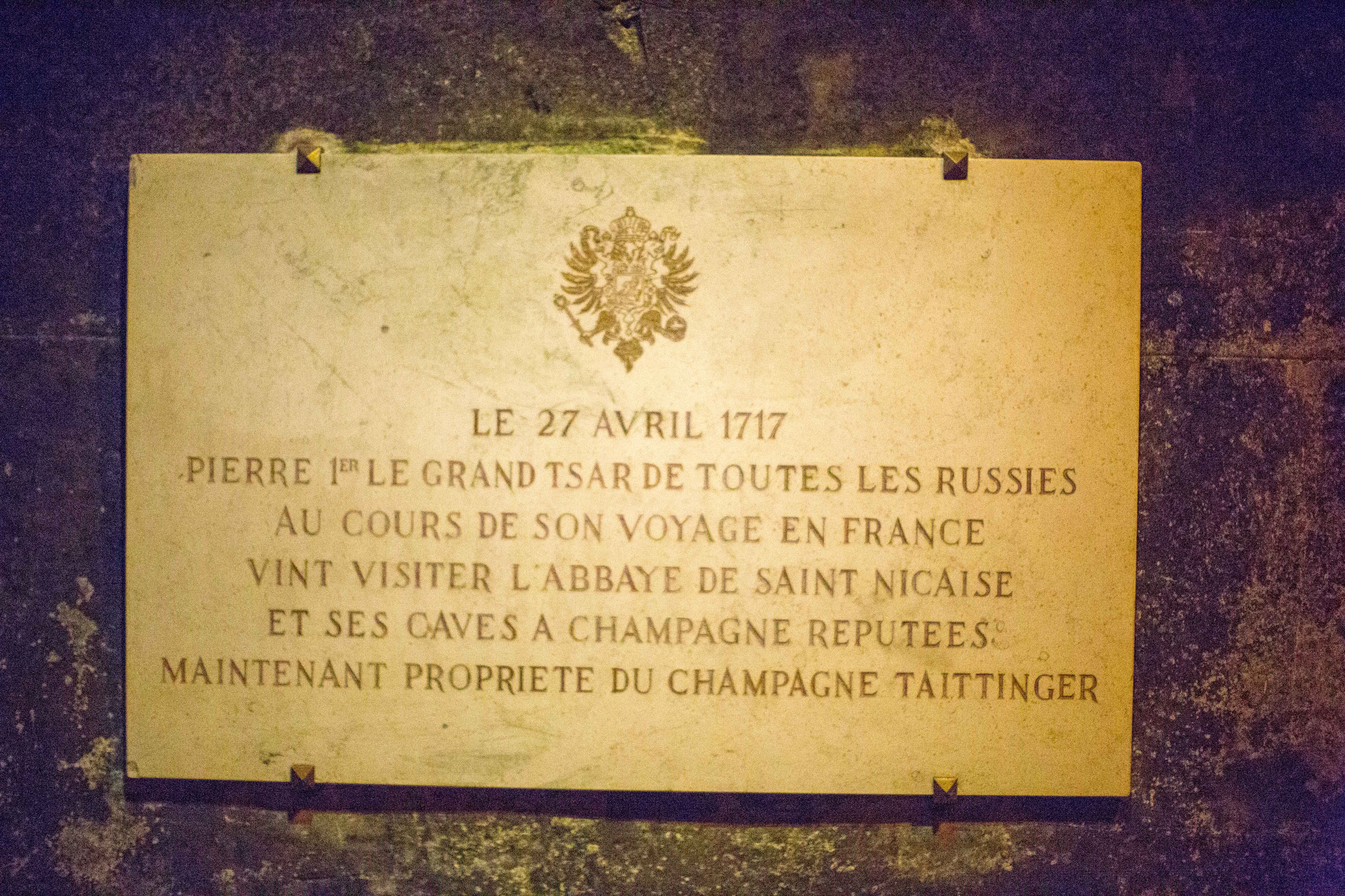 Tattinger caves